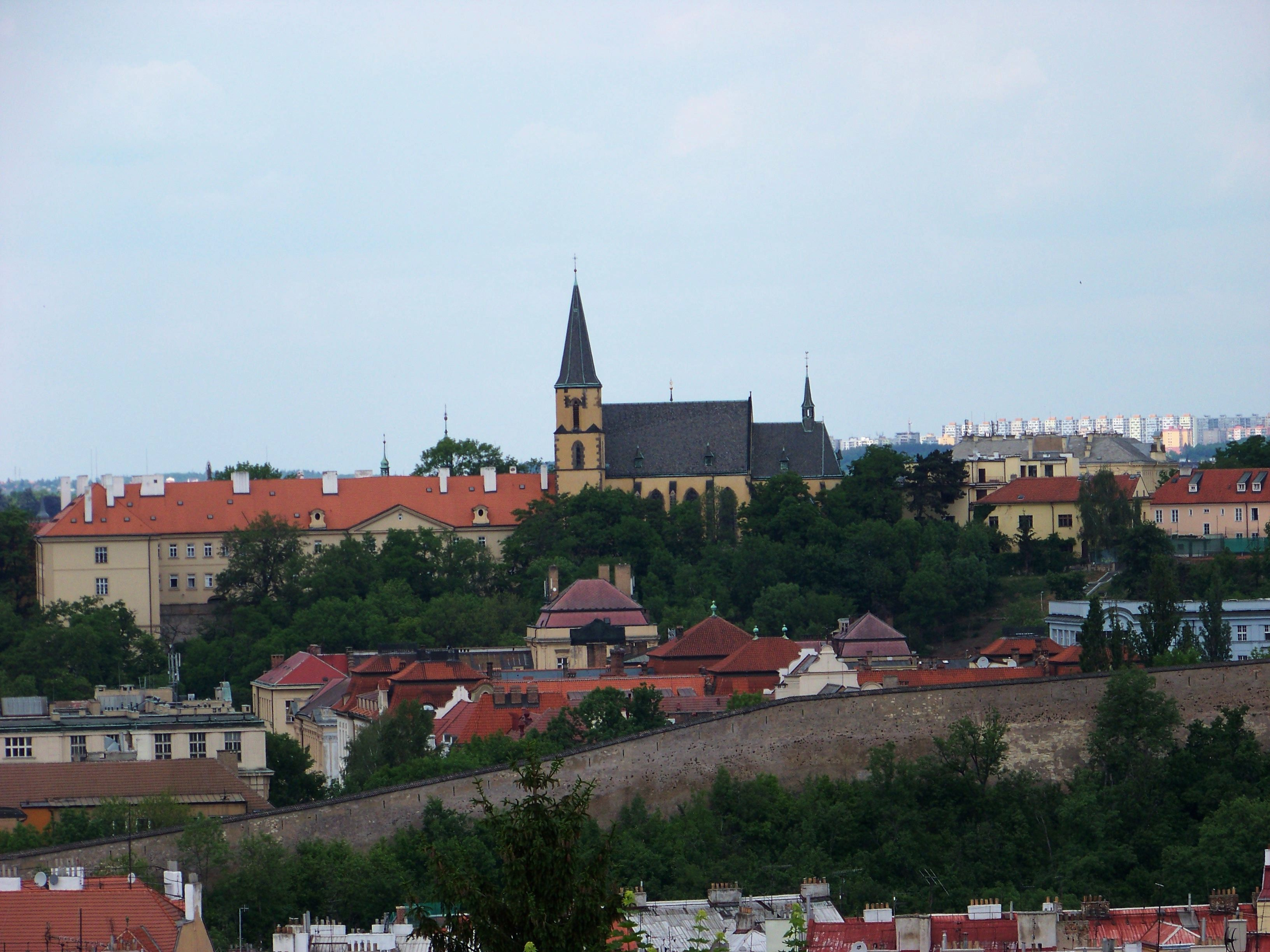 Prague-Nusle-Pankrác, the Czech Republic. A view from the Congress Centre to New Town with Saint Appolinaire Church.